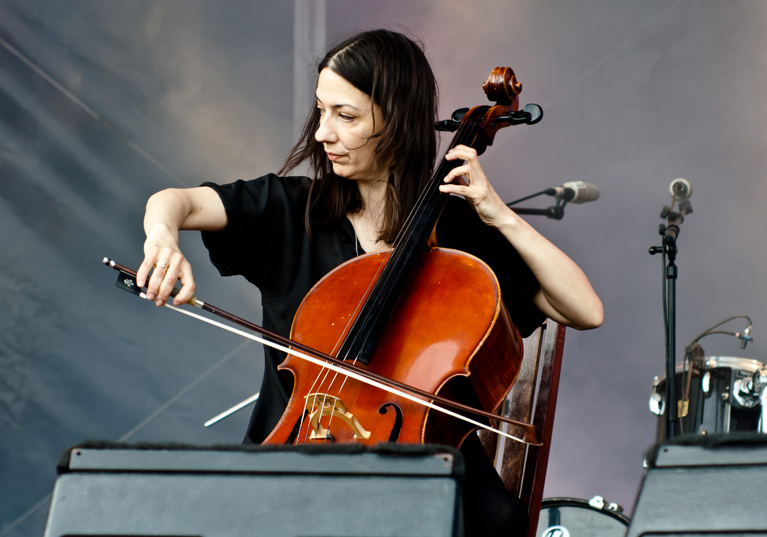 Julia Kent at the Primavera Sound Festival 2011.